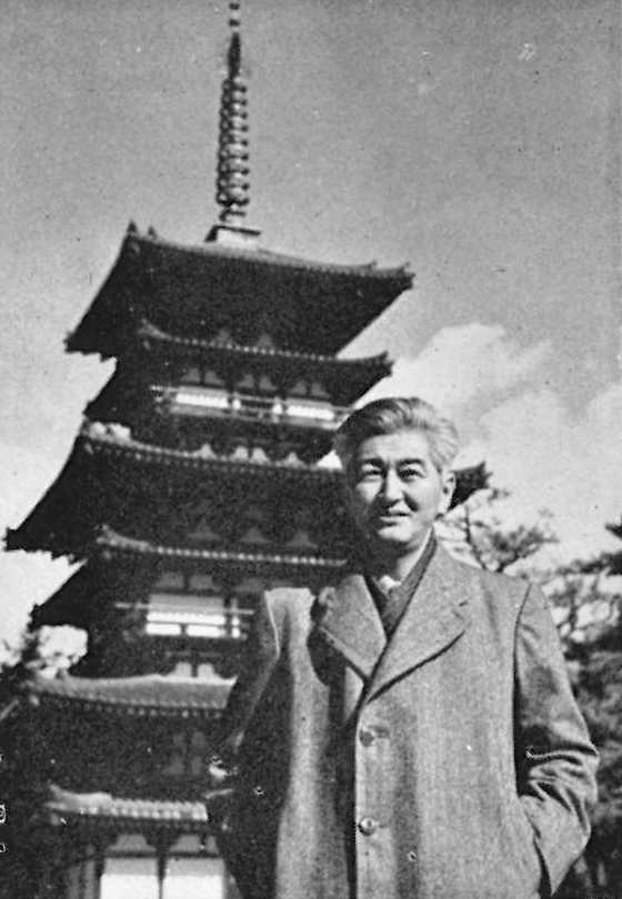 Katsuichiro Kamei